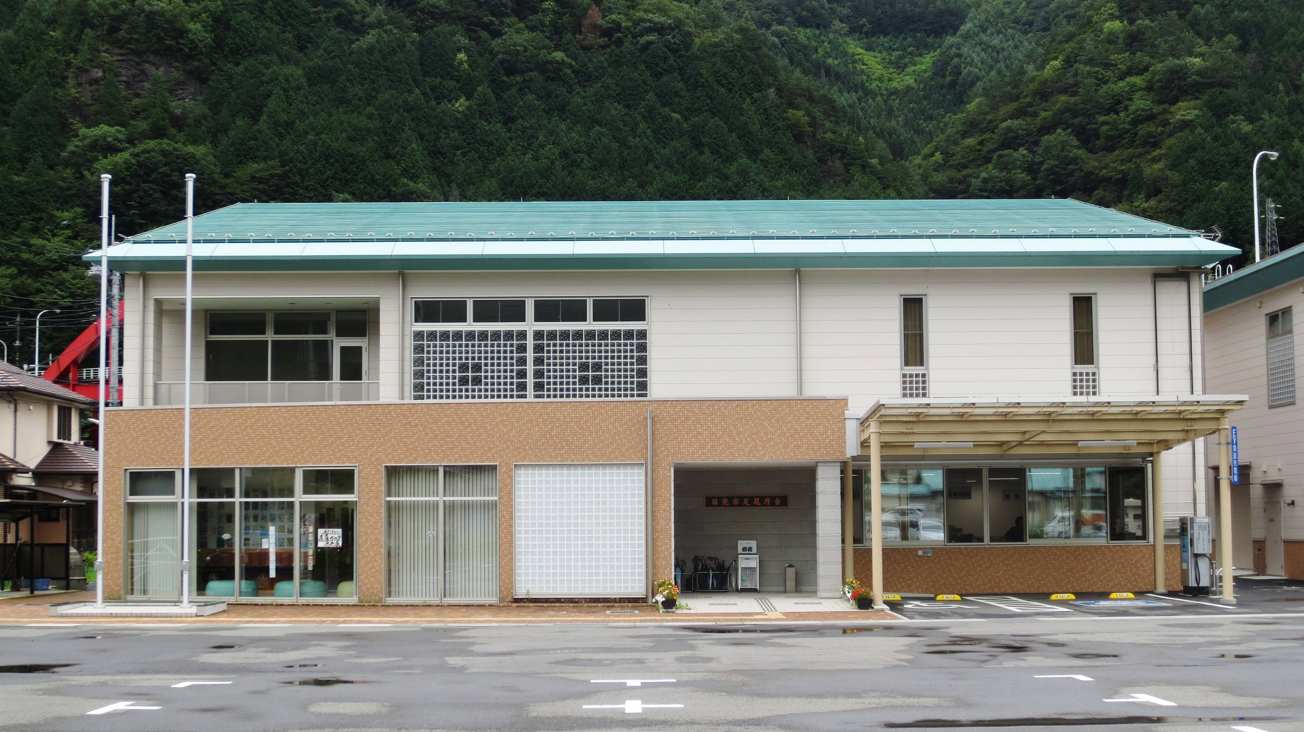 Nikko city Ashio branch office.